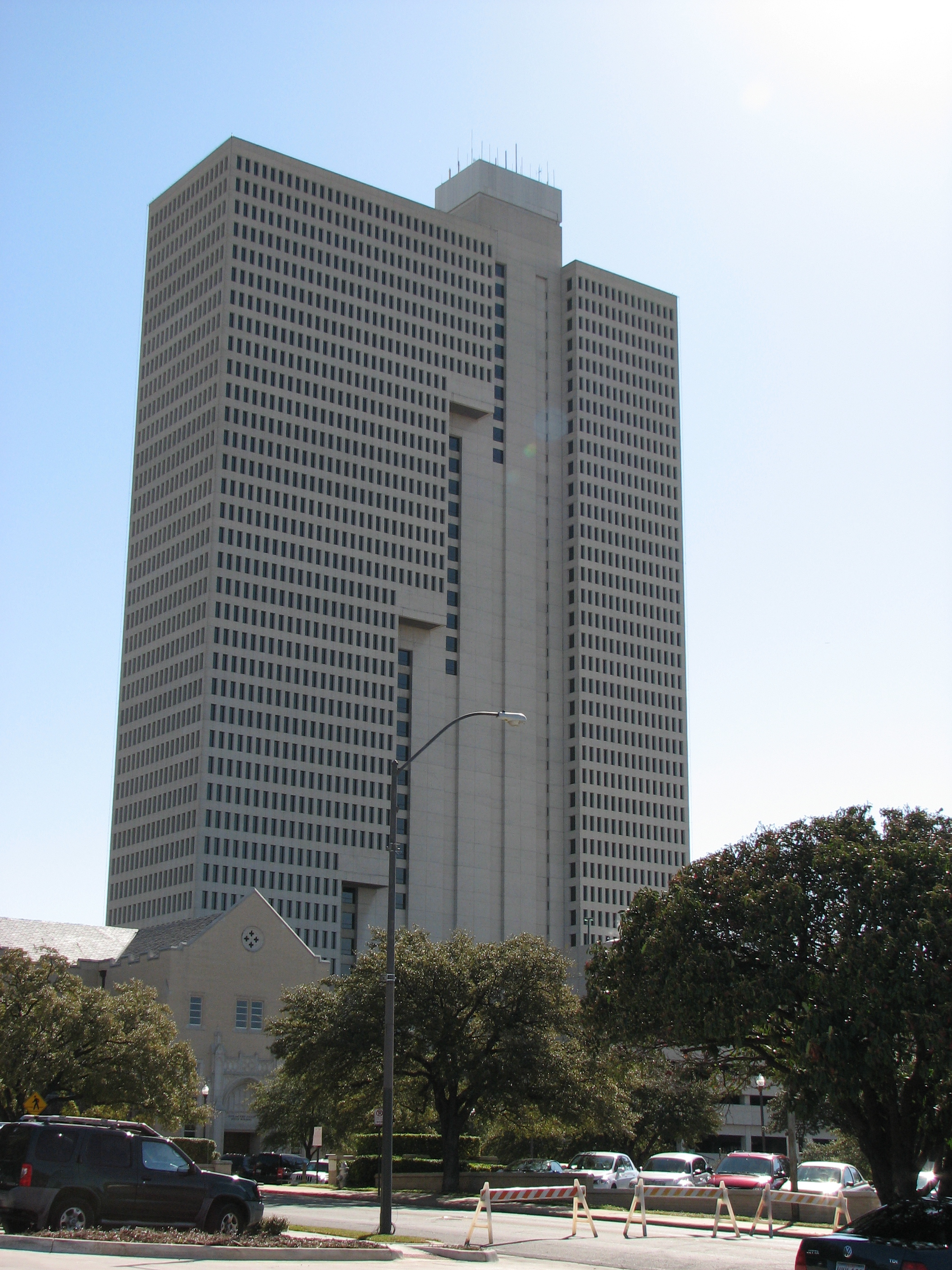 Tallest Skyscraper in Fort Worth WM5YET